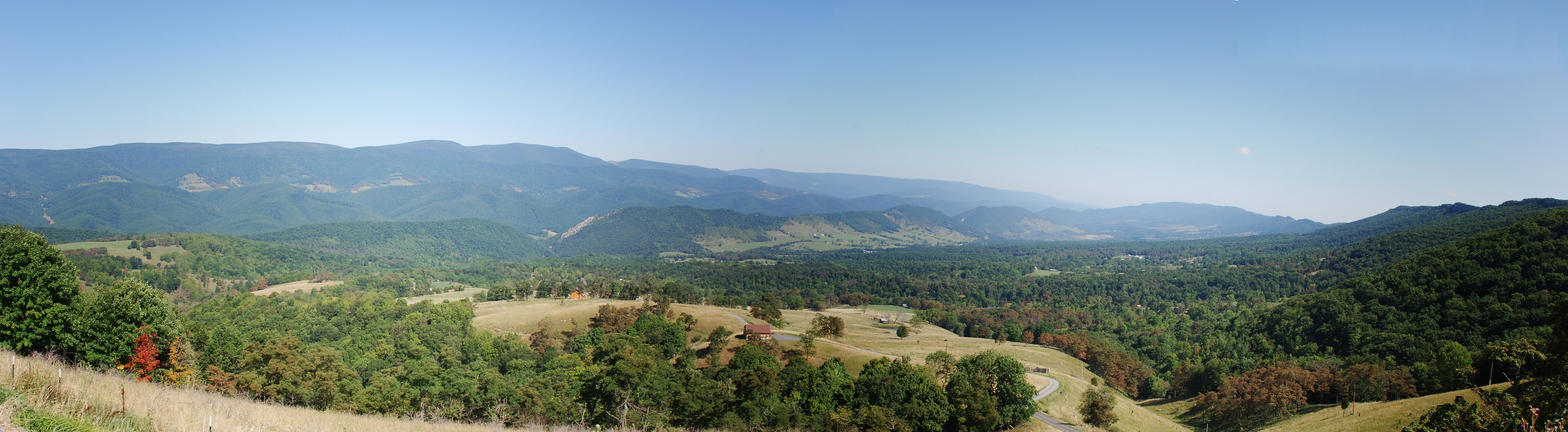 Germany Valley in Pendleton County, West Virginia. Picture taken on US 33 on North Fork Mountain.